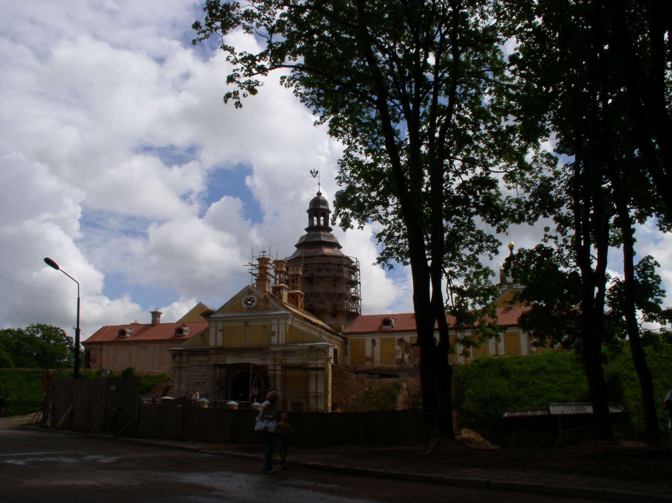 Radziwill family castle, Niasvizh, Belarus.